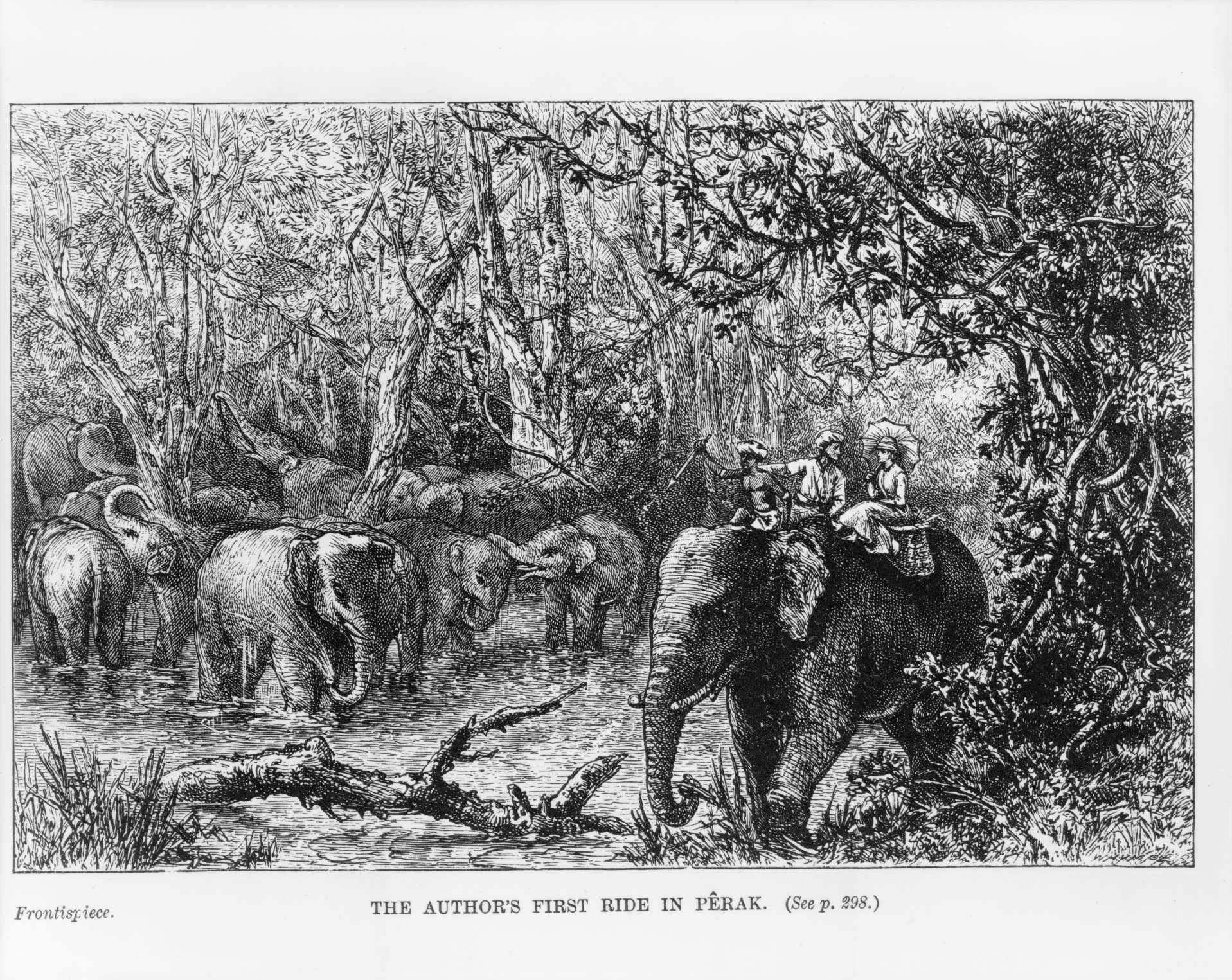 Isabella L. Bird and two natives on elephant, with other elephants, in swamp, in Perak, Malaya.